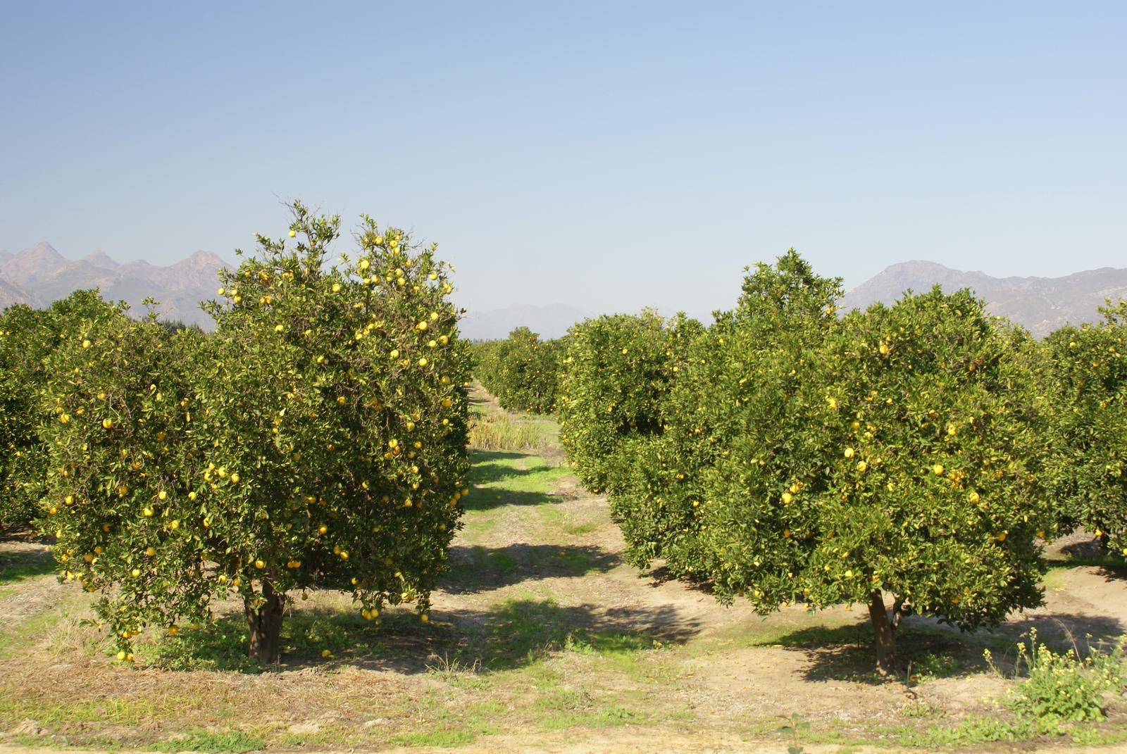 Typical view in Citrusdal